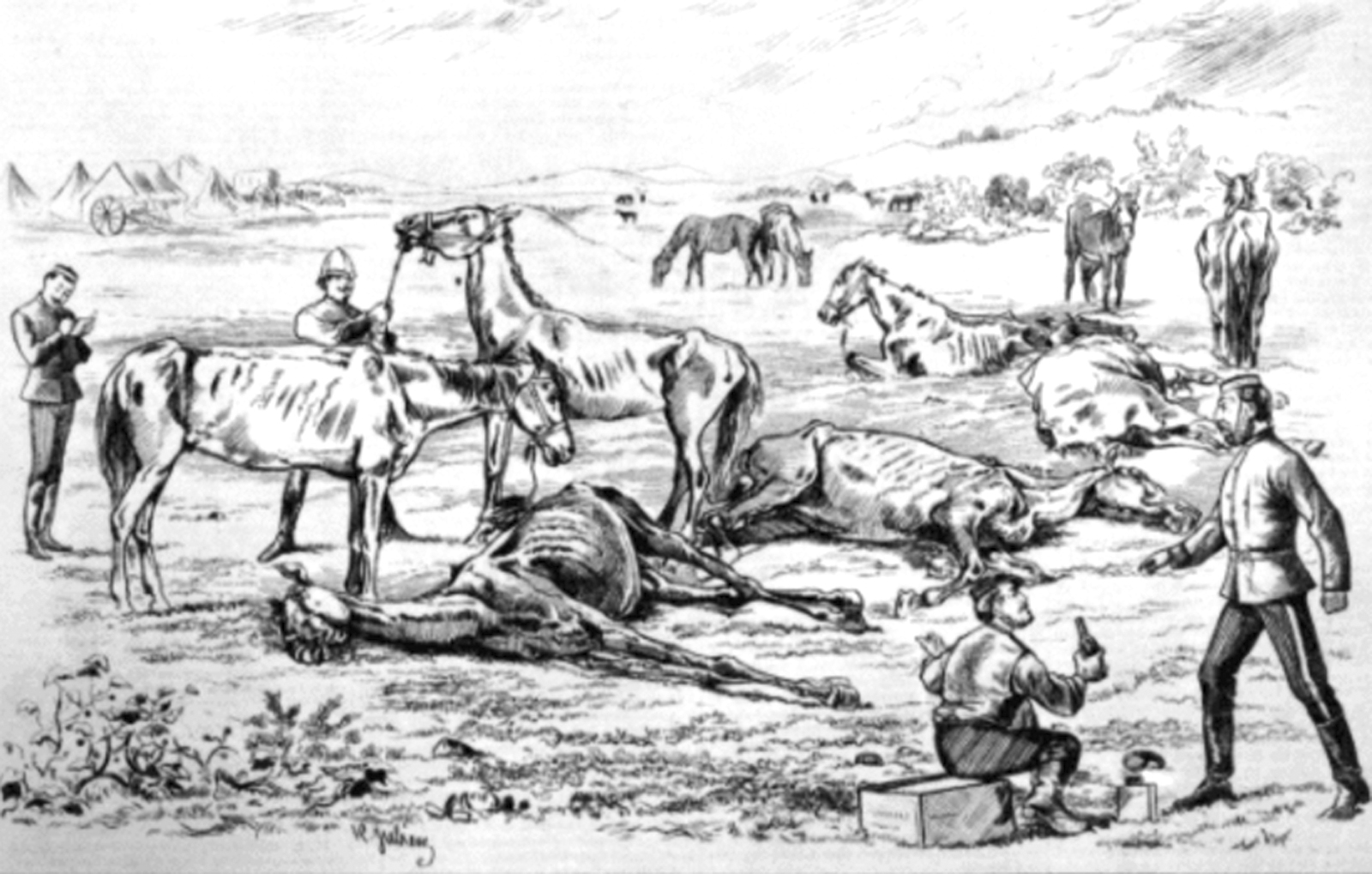 From "Six Months in the Wilds of the North-West", Canadian Illustrated News, Vol. XI, no. 19, No. 6, Page 293. Photo: From Library and Archives Canada ( for confirmation of public domain status)